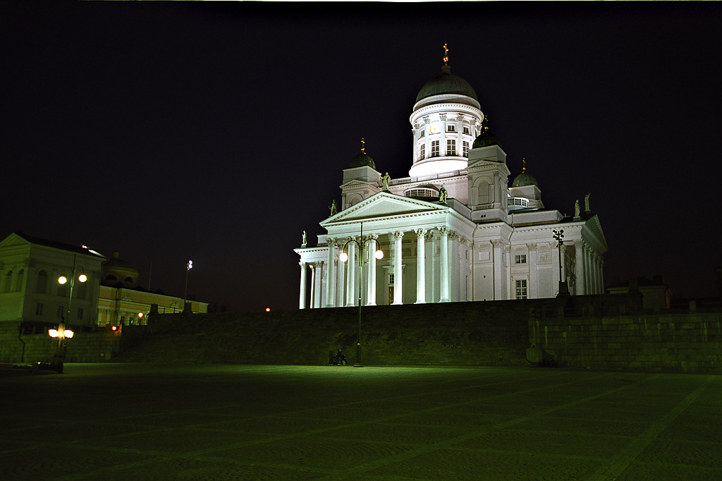 A picture of The Helsinki Cathedral, taken at night. It is an Evangelical Lutheran cathedral located in the centre of Helsinki, Finland.